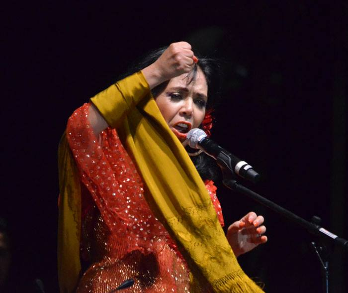 Carmen Cardenal en concierto